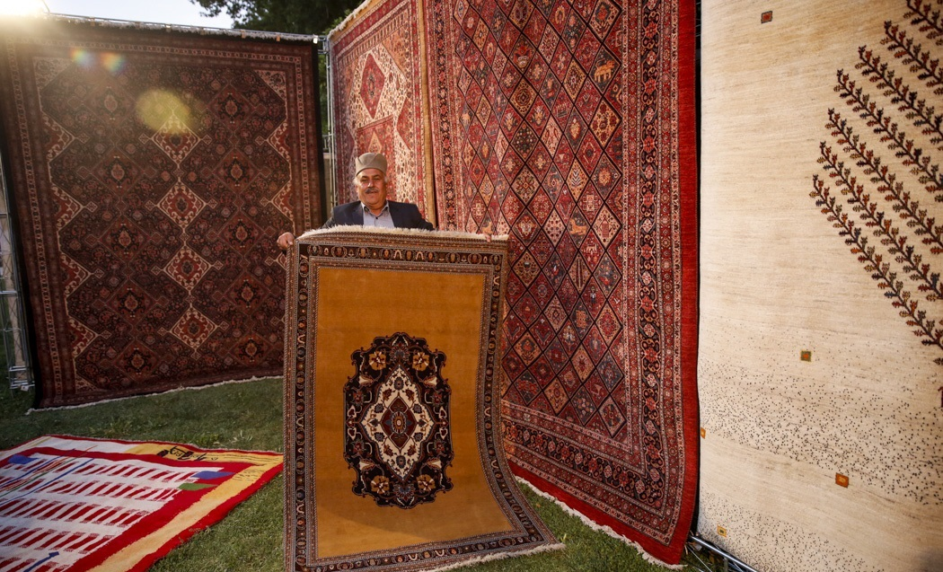 Qashqai handmade gabbeh rug, registration celebration, Afif-Abad Garden, Shiraz - 24 April 2018. main page